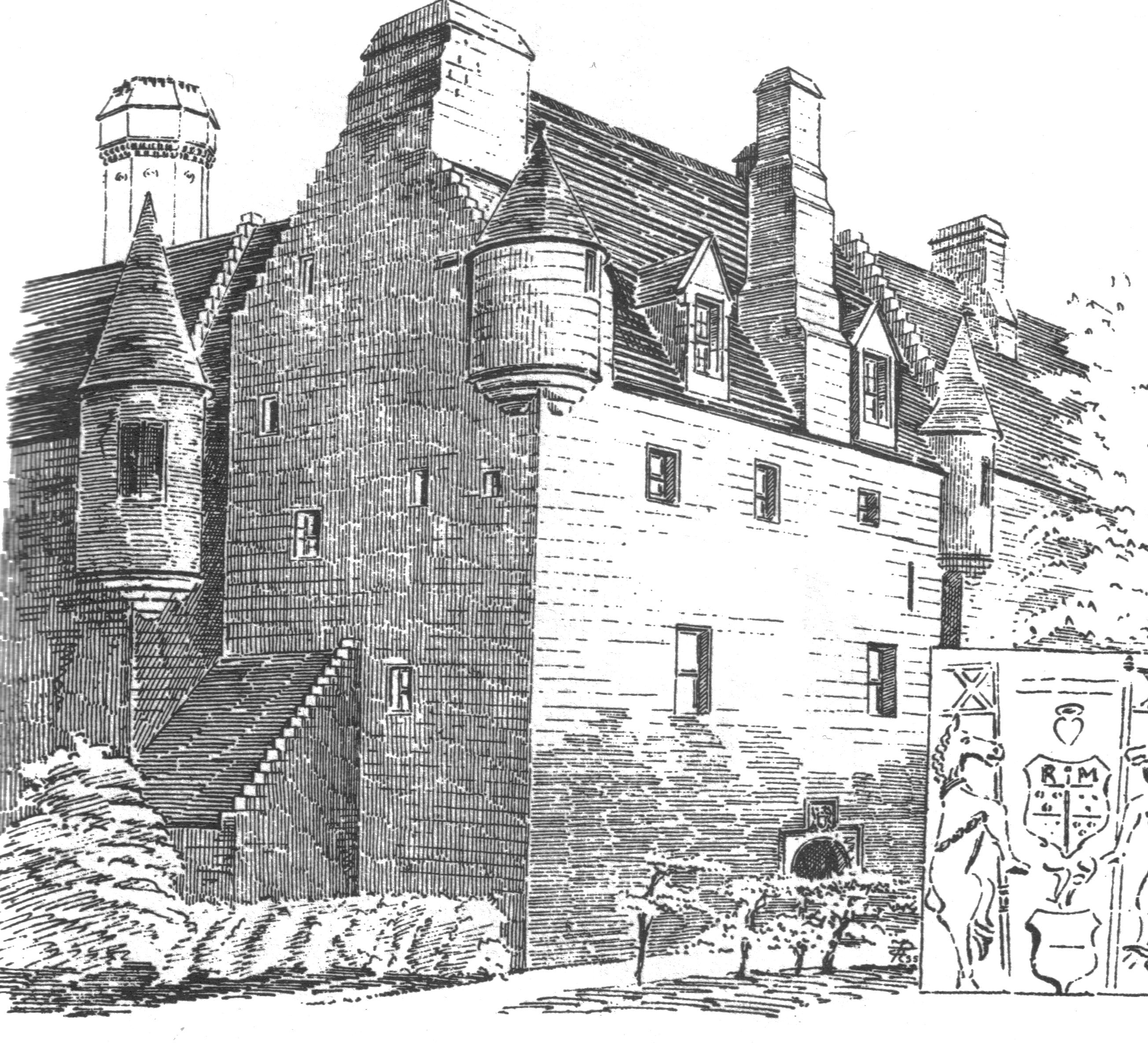 Skelmorlie Castle, Largs, North Ayrshire, Scotland